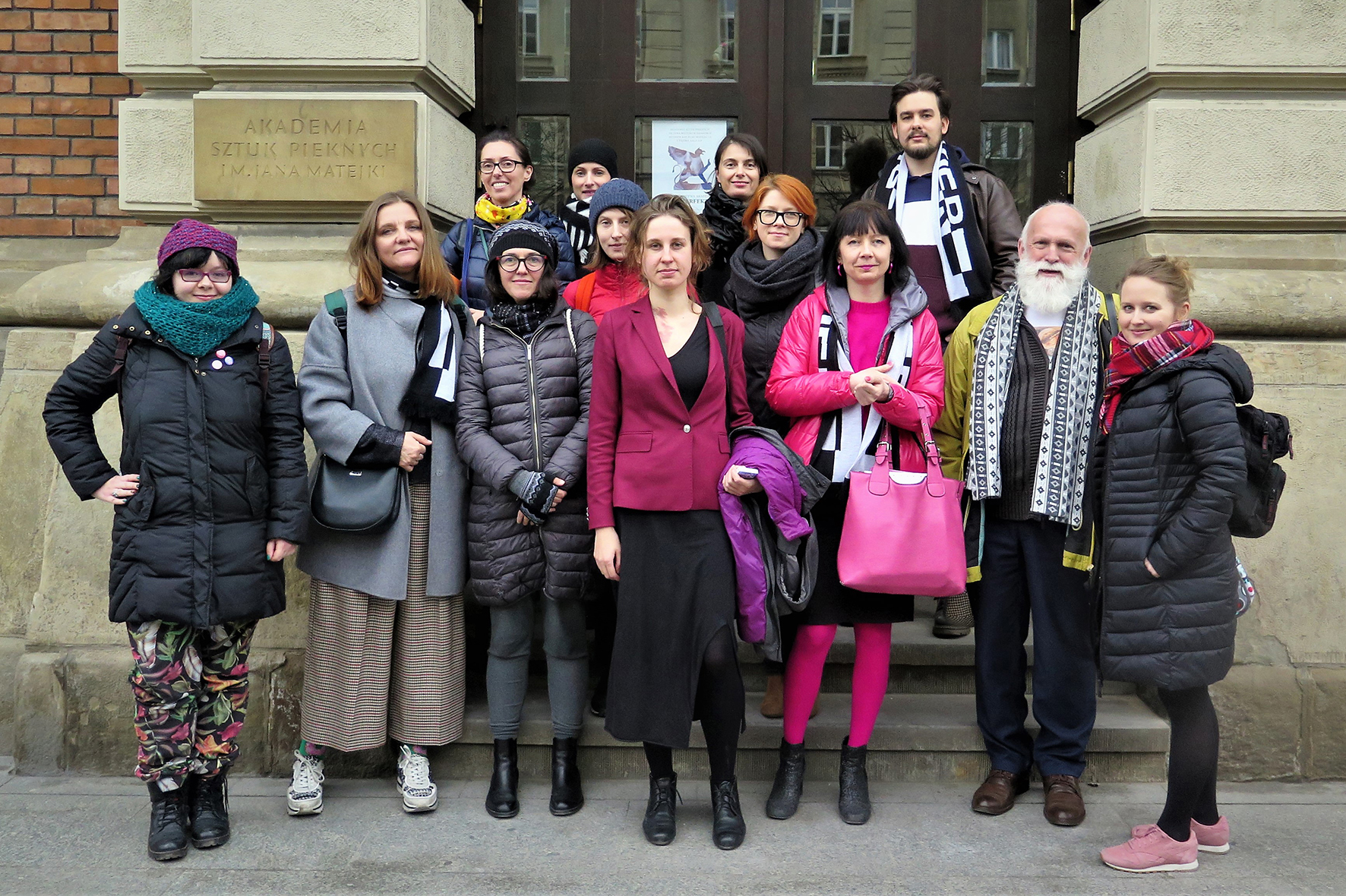 The edition of the Wikipedia workshop organized by Celina Strzelecka.